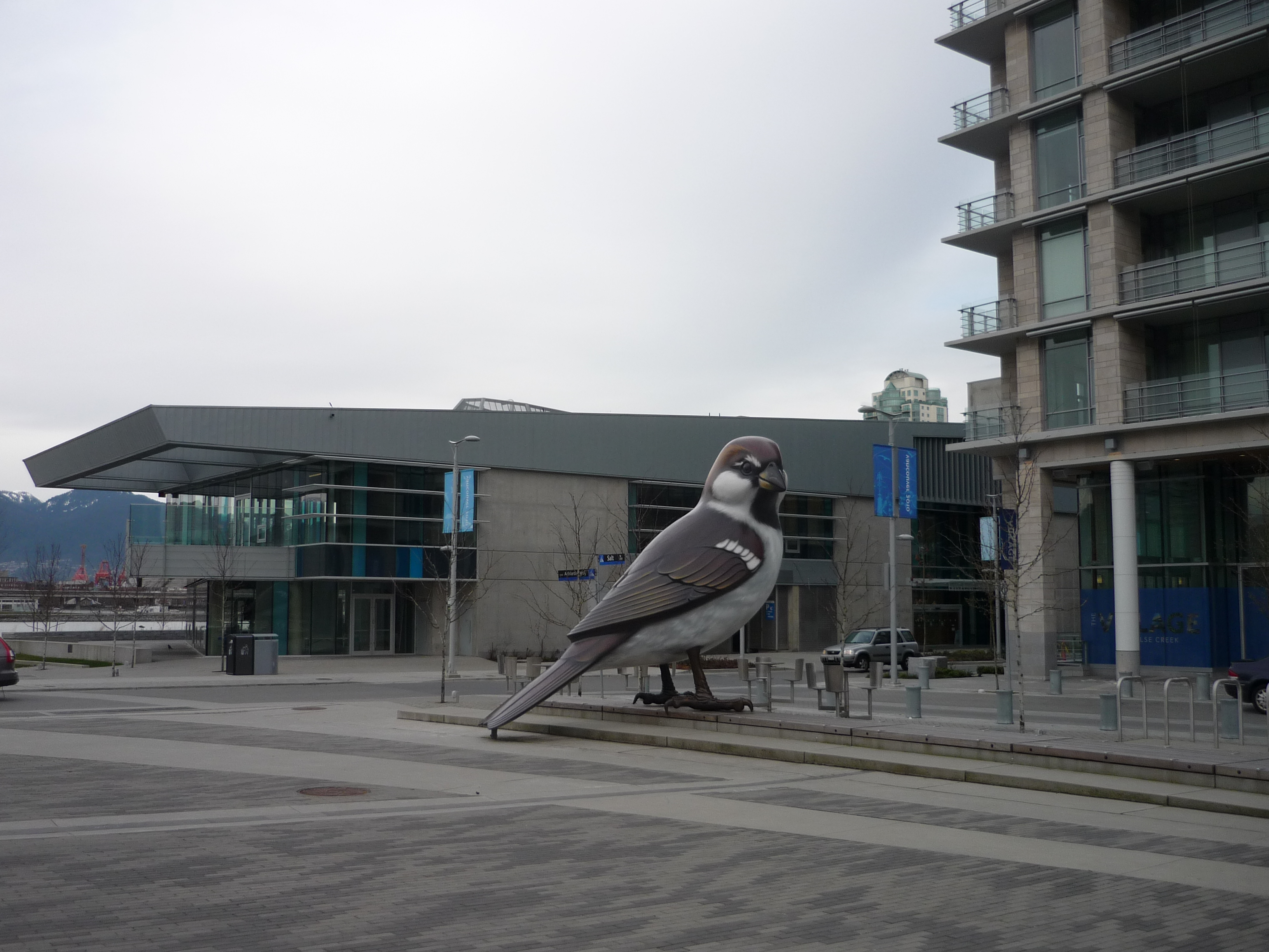 A sculpture of a House Sparrow at the Olympic Village in Vancouver, Canada